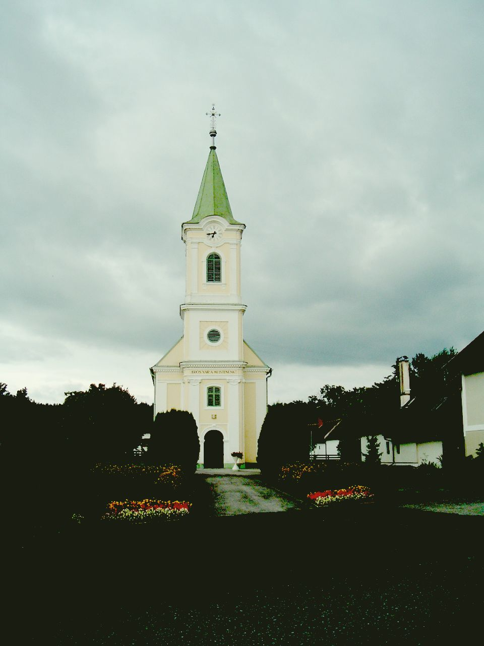 Ref. church in Siget in der Wart (Őrisziget)